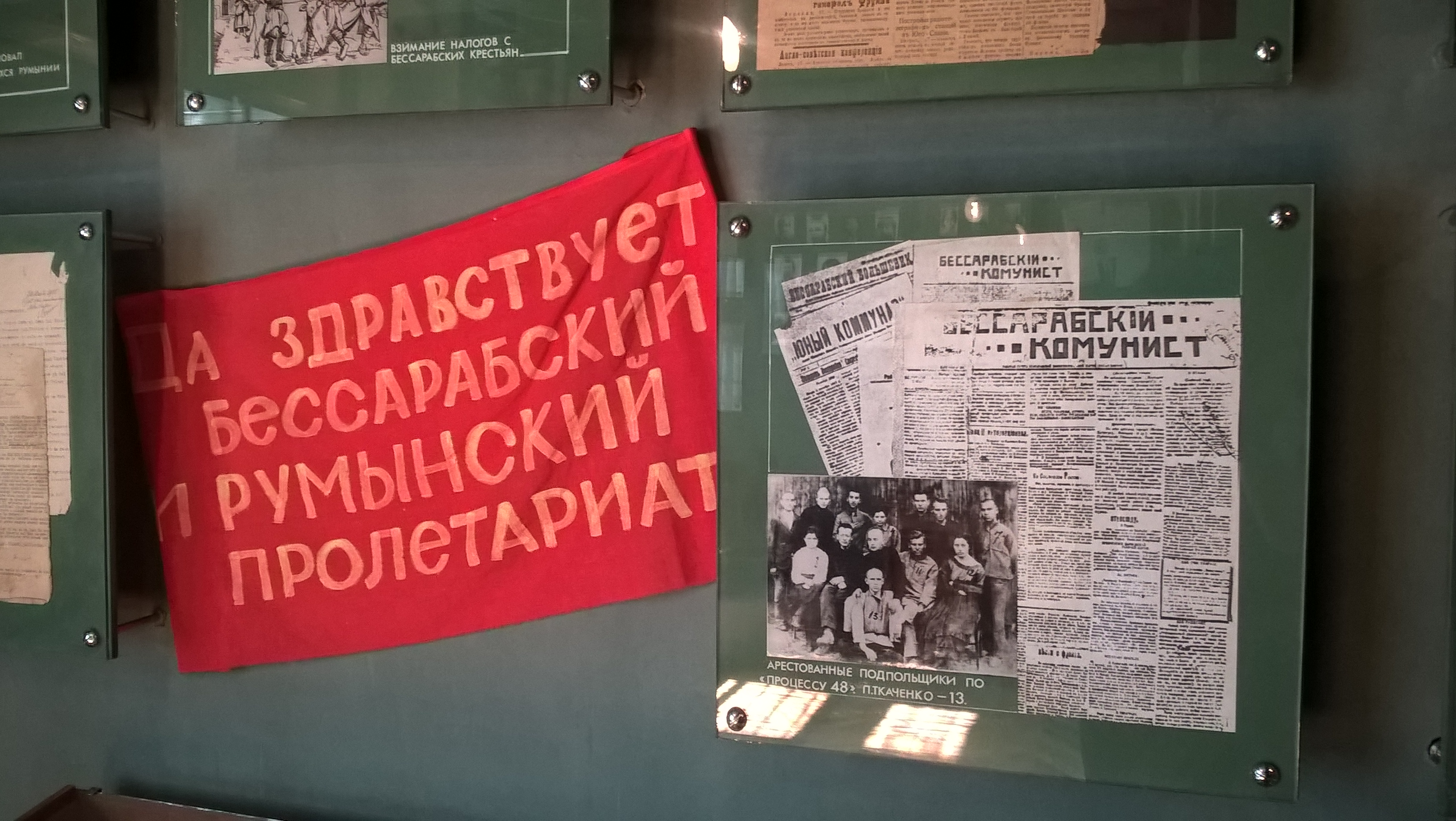 Bolshevik activists, papers and flag, Bender museum